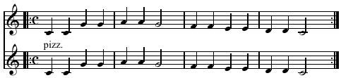 "Twinkle, Twinkle, Little Star" melody double in unison by flute and violin.